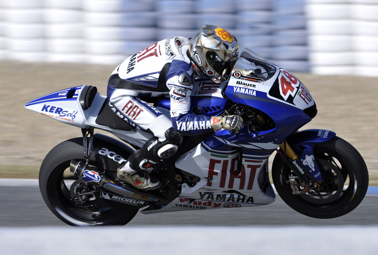 Jorge Lorenzo in IRTA Test of Jerez